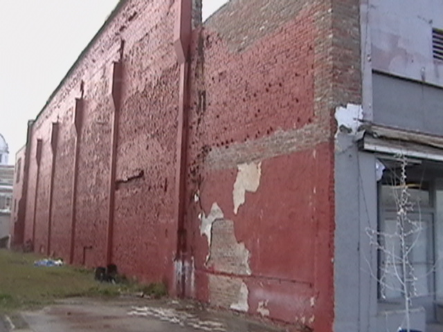 A building in the DeRidder Commercial Historic District. One building was destroyed by fire and was torn down leaving a gap.